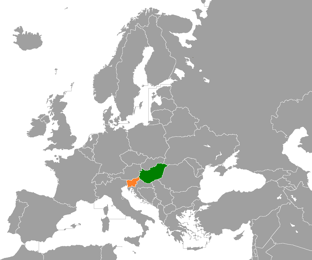 Hungary-Slovenia locator map.